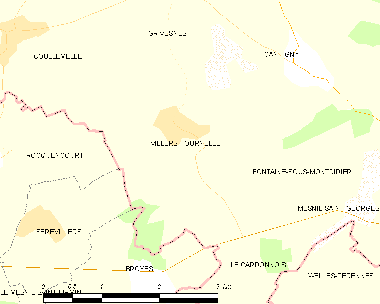 Map of French municipality Villers-Tournelle